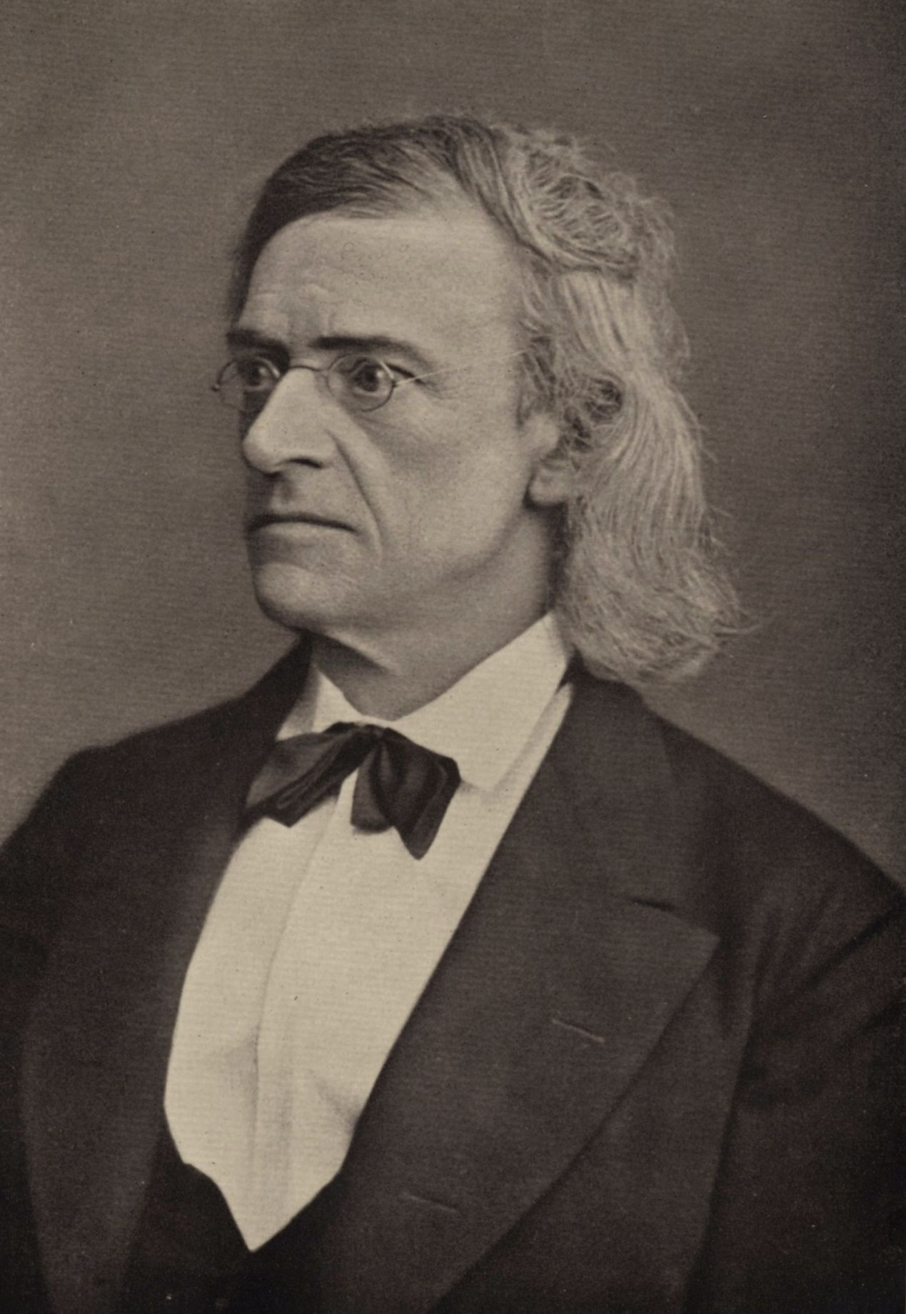 Theodor Mommsen (must be around this time)